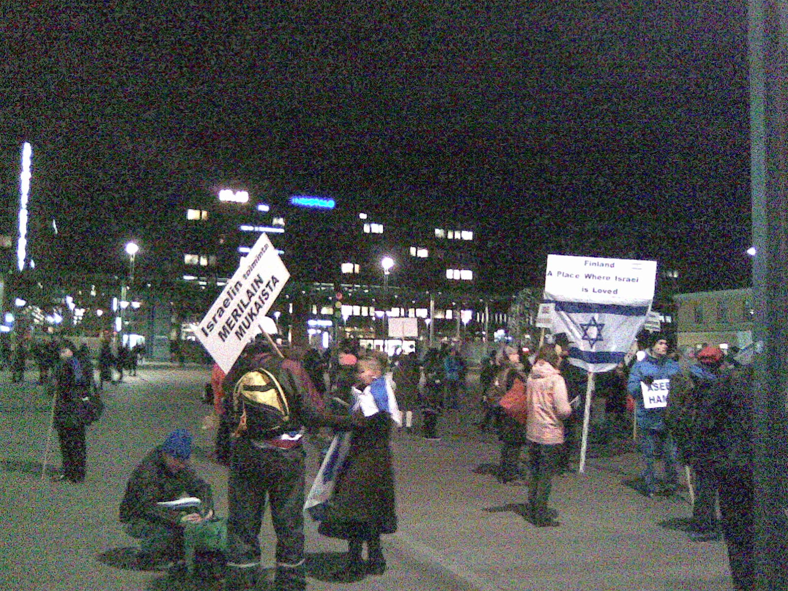 A demonstration in the square Narinkka in central Helsinki in support of the State of Israel. The placard in the front translates as “Israel’s activity is in accordance with maritime law.”